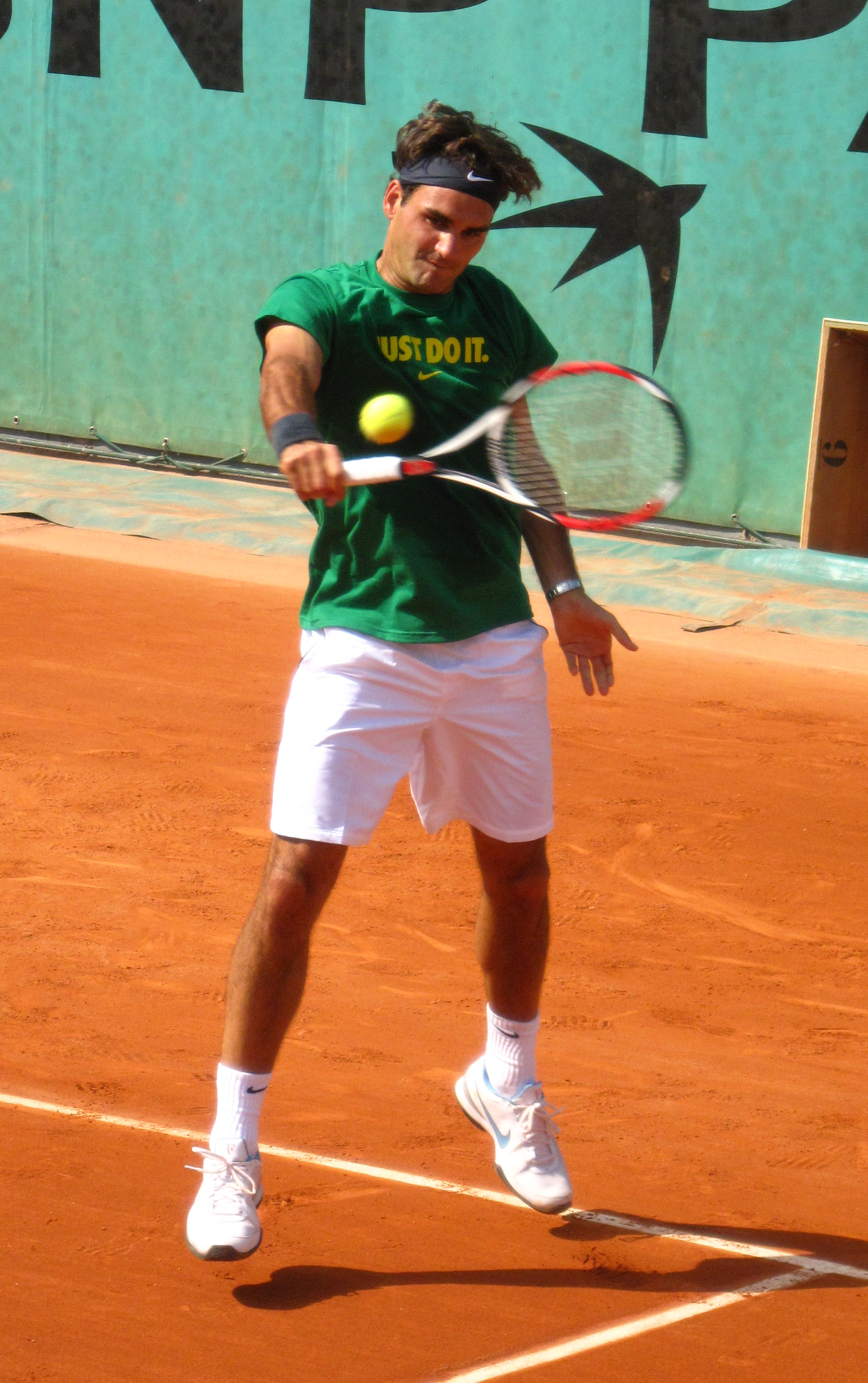 Roger Federer at 2009 Roland Garros, Paris, France